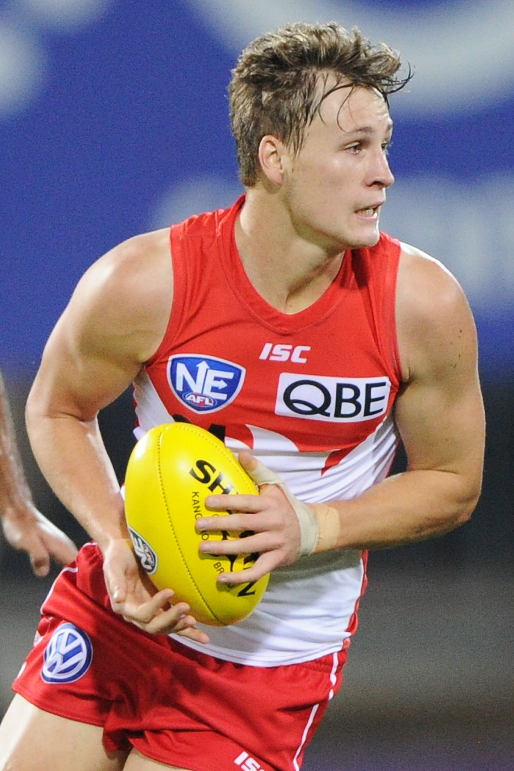 Jordan Dawson of Sydney during the 2018 NEAFL round 15 match between NT Thunder and Sydney at TIO Stadium on Saturday, 14 July 2018 in Darwin, Northern Territory.